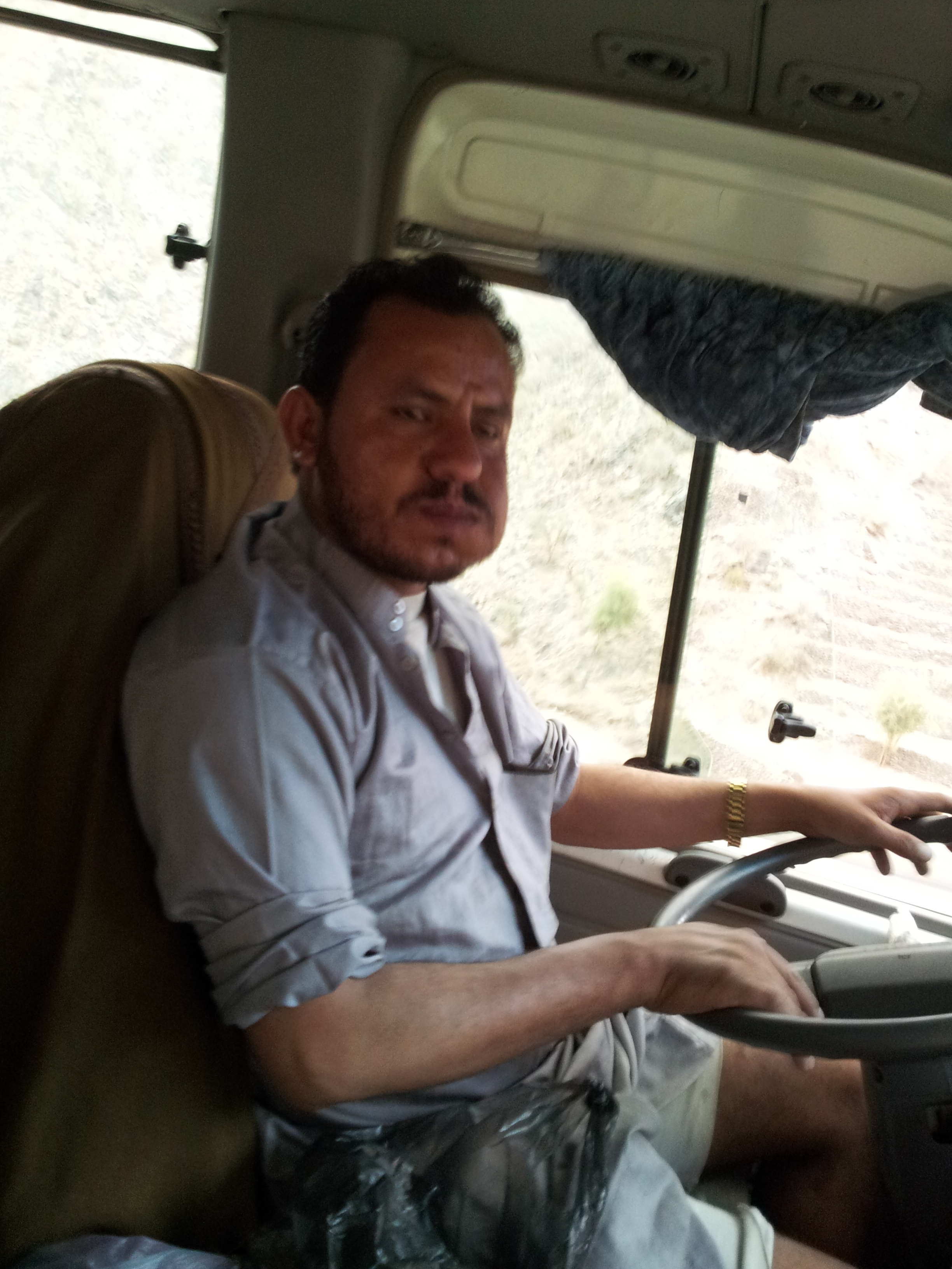 Addiction of qat in yemen